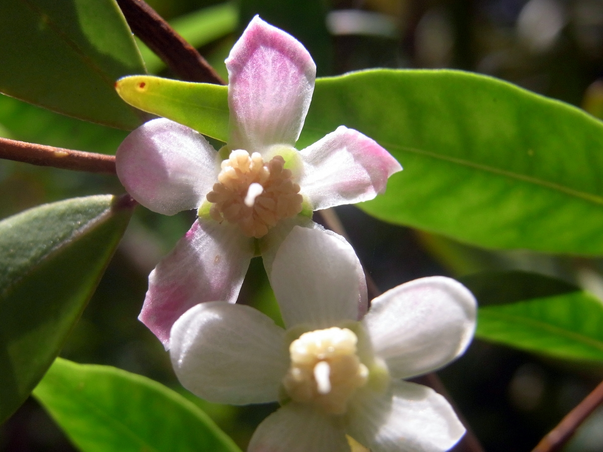 Uromyrtus australis flowers, RBG Sydney